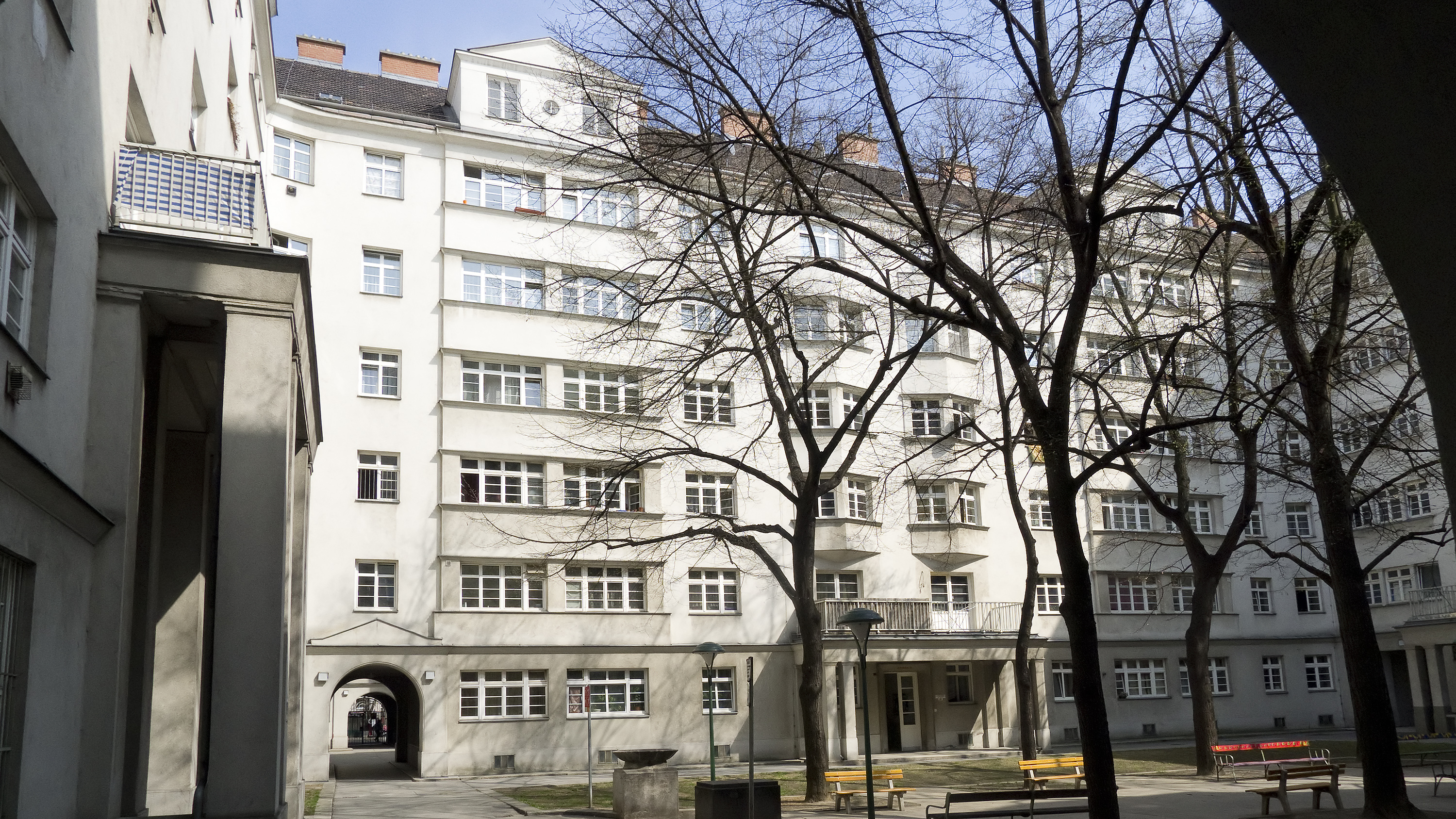 Residential building Lassalle-Hof at Lassallestraße 40, Vienna Leopoldstatdt